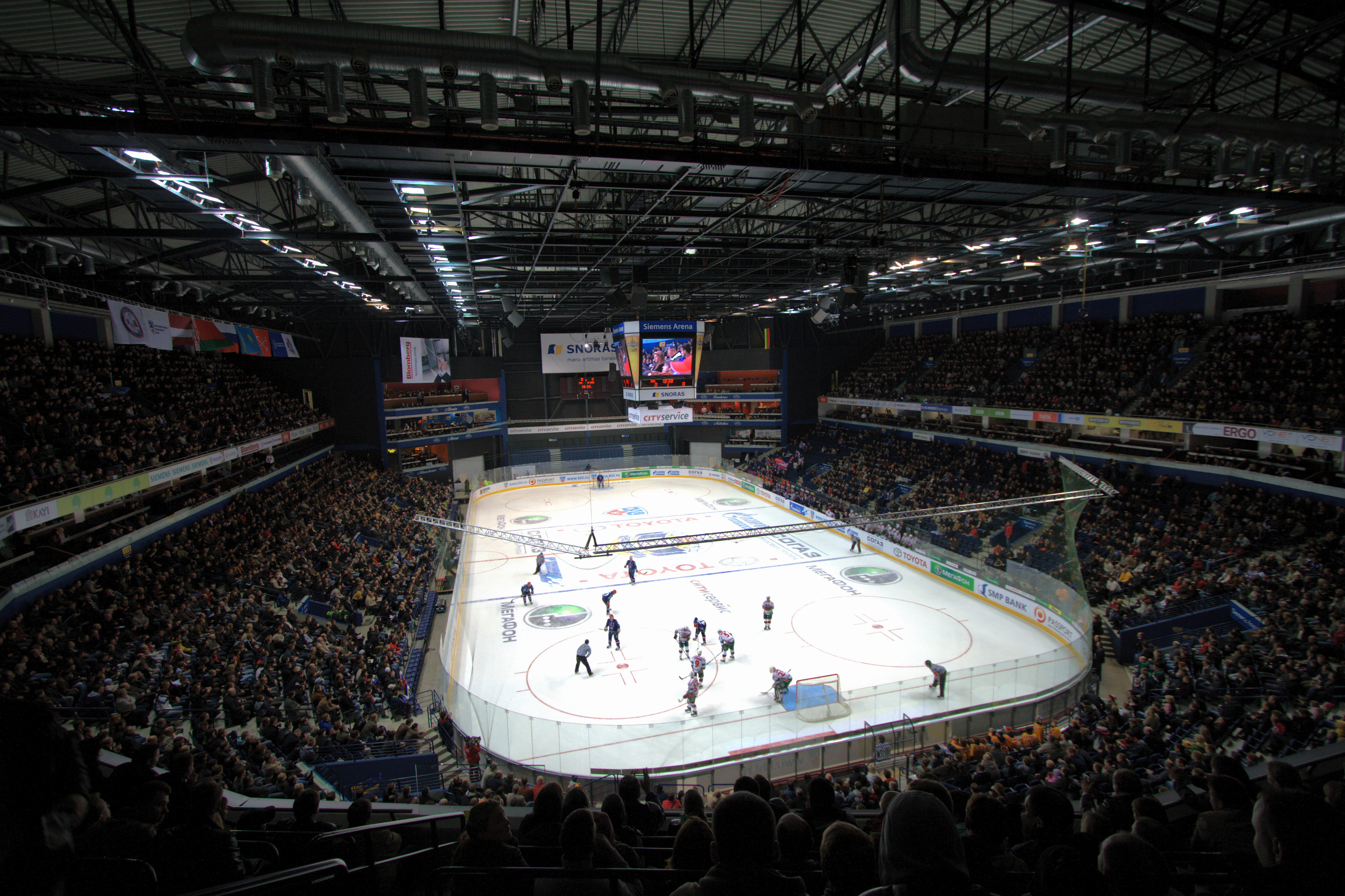 Siemens Arena during ice hockey match SKA - Ak Bars